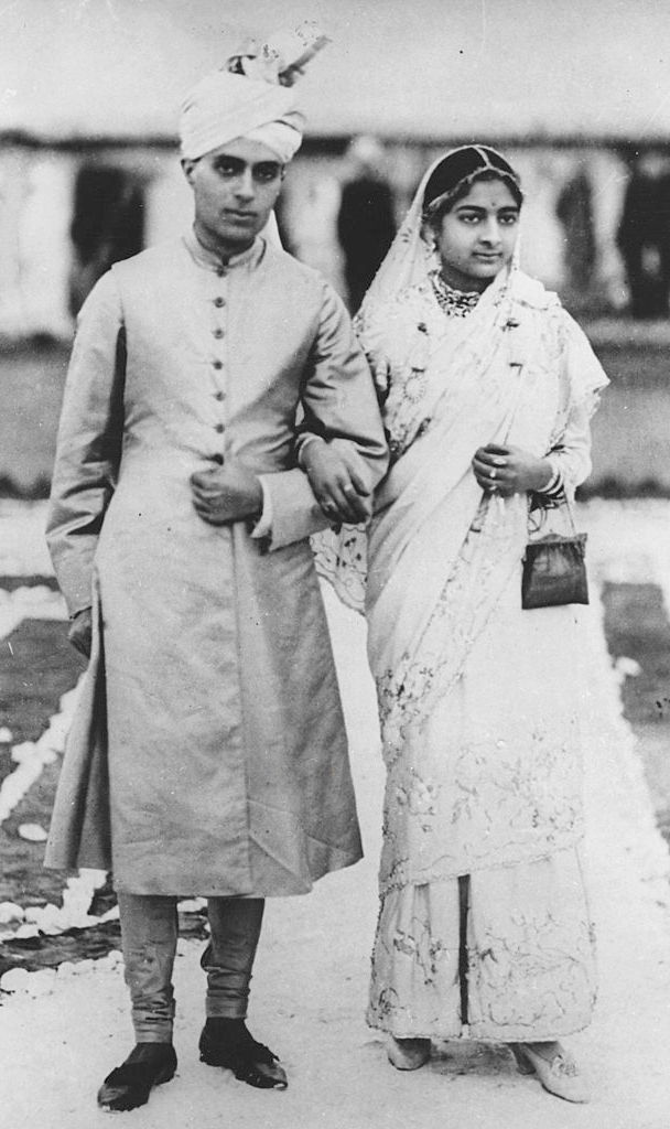 Indian statesman Jawaharlal Nehru (1869 - 1964), known as Pandit Nehru, and his wife Kamala on their wedding day, 8th February 1916.